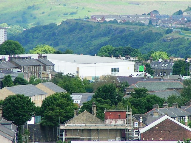 Asda, Thrum Hall, seen from Wainhouse Tower